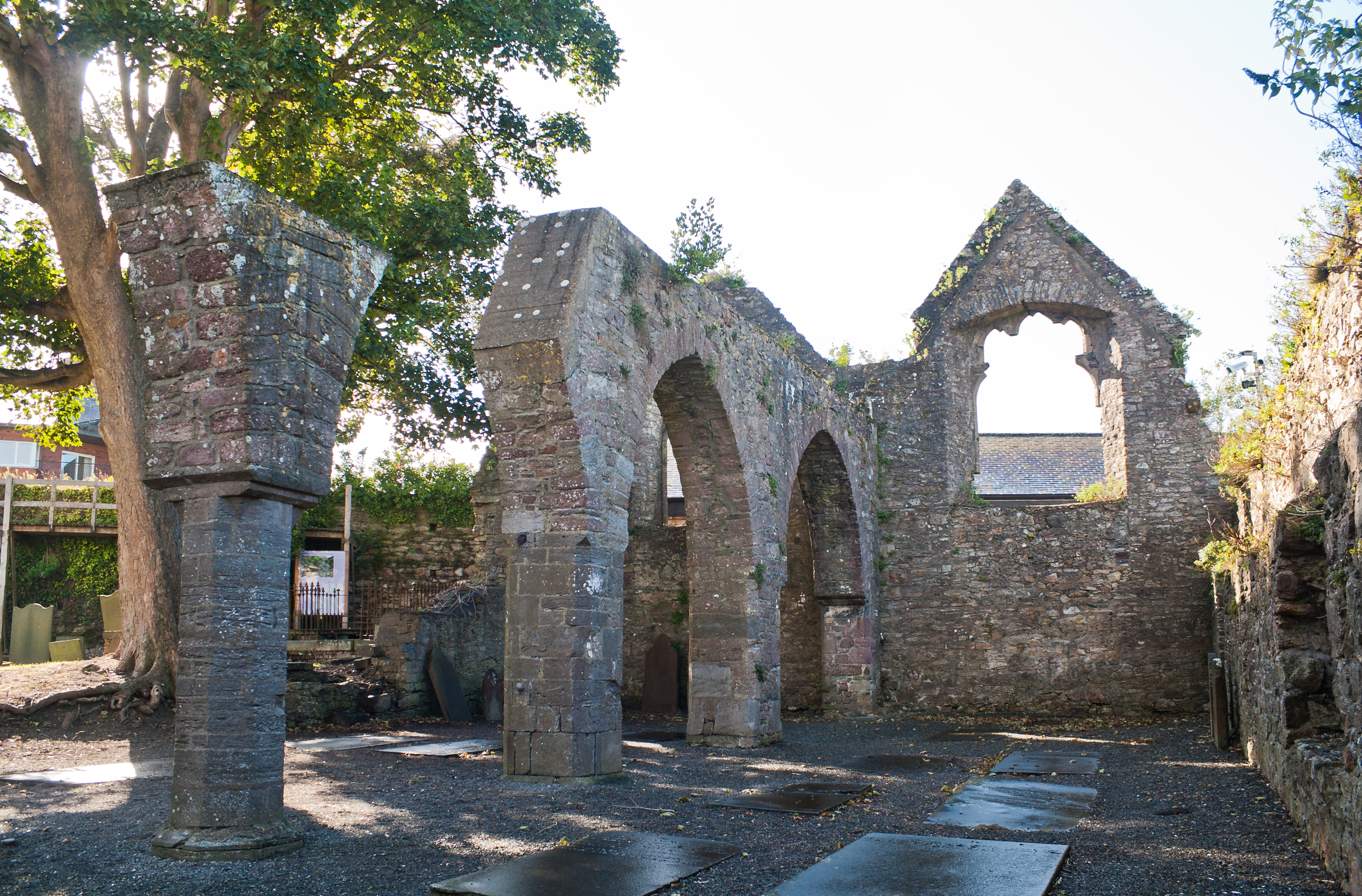 North nave and arcades between north and south nave, looking south-west. Probably 13th century according to Michael J. Moore.